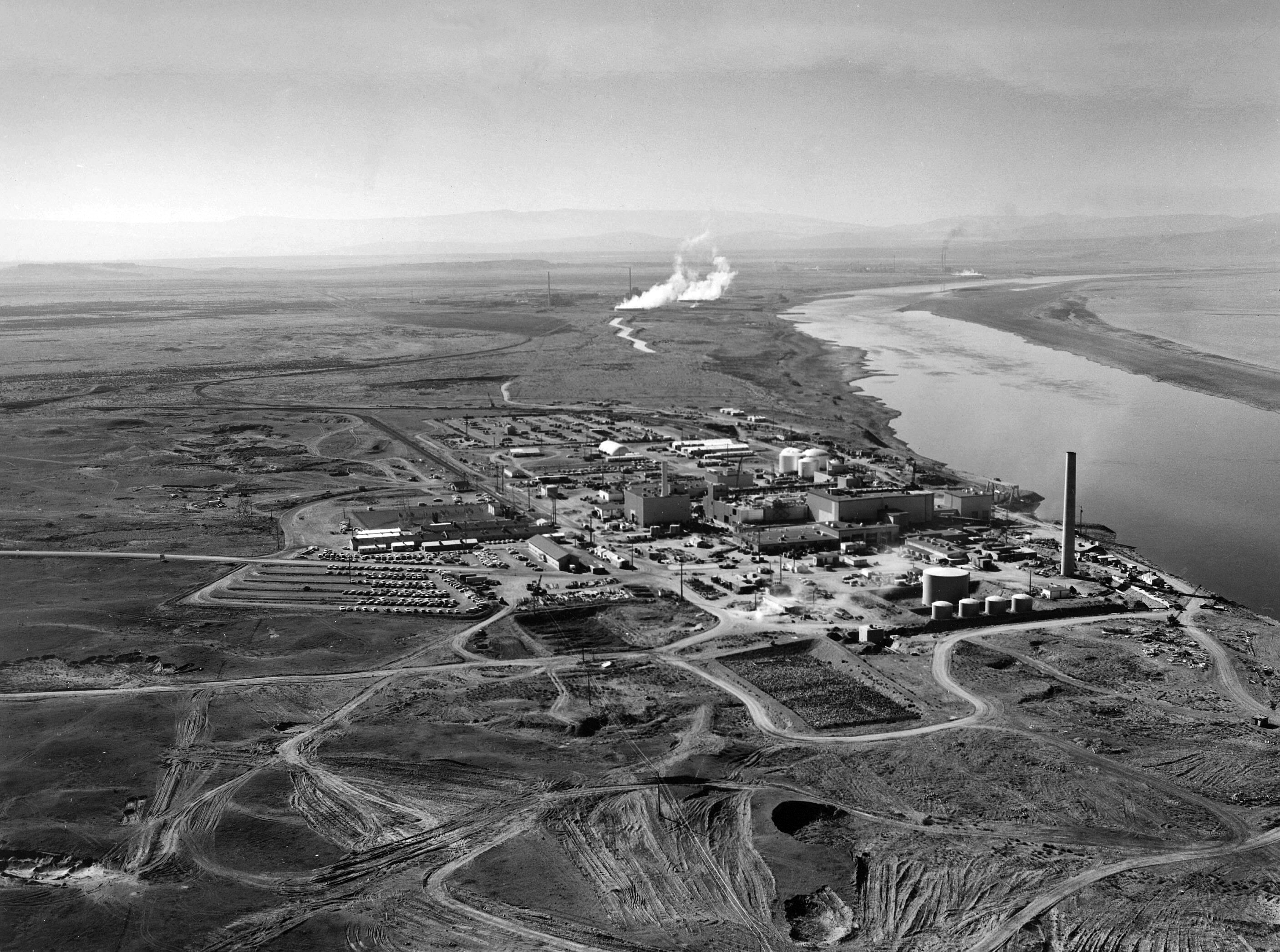 The N Reactor at the Hanford site, along the Columbia River. The twin KE and KW reactors can be seen in the immediate background, with the B Reactor in the distance.